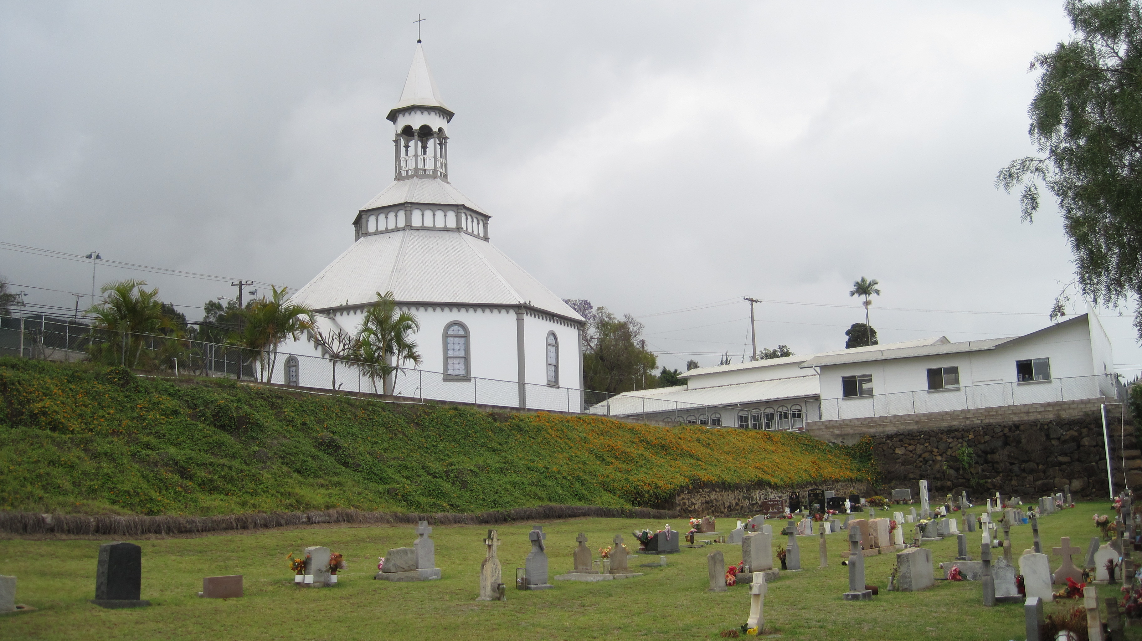 Holy Ghost Catholic Church & cemetery, Kula, Hawaii, on National Register of Historic Places